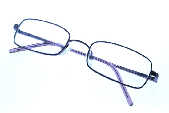 ... clearly